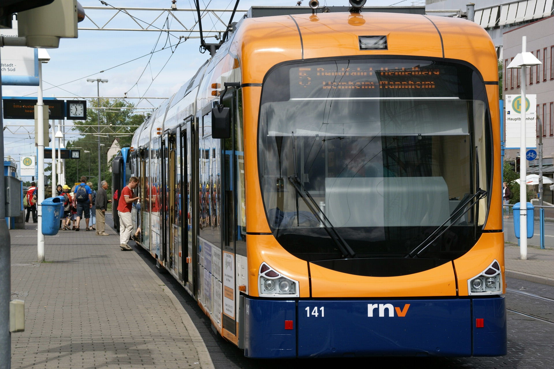 Trams of the RNV at the main train station in Heidelberg, Germany